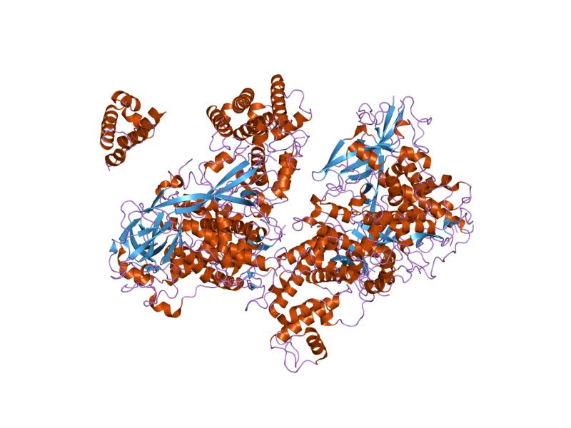 Cartoon representation of the molecular structure of protein registered with 1urj code.